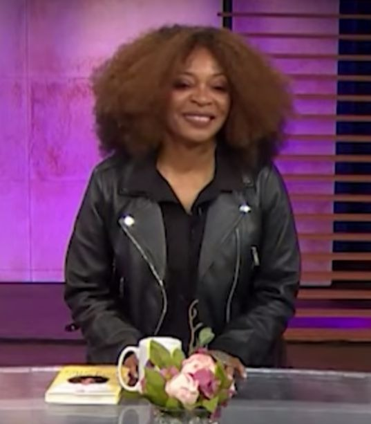 Tina Lifford Talks Inner Fitness & “The Little Book Of Big Lies”